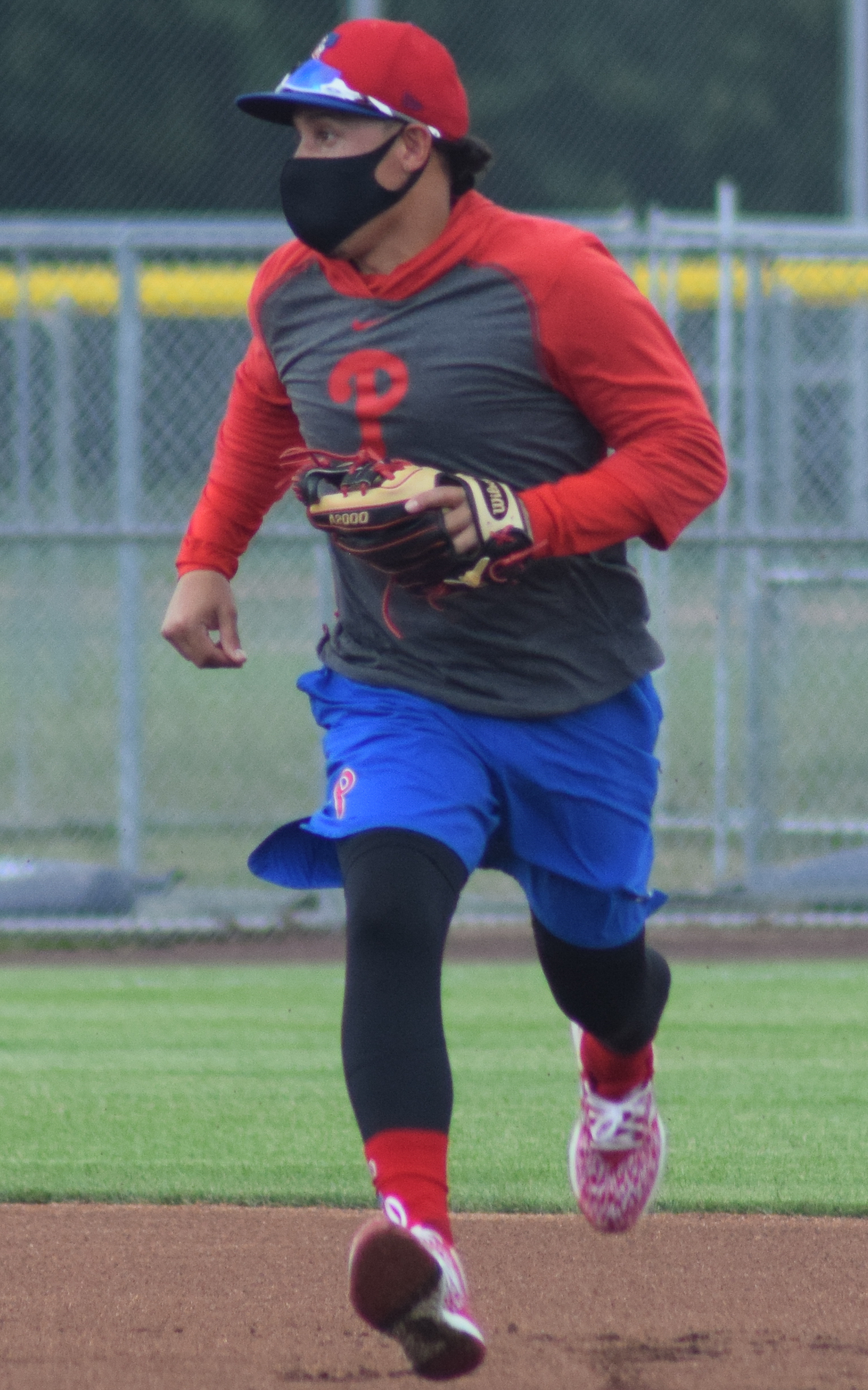 Ronald Torreyes takes infield practice with the Philadelphia Phillies at FDR Park in South Philadelphia during 2020 Summer Camp.